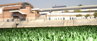 Salesian High School Field View